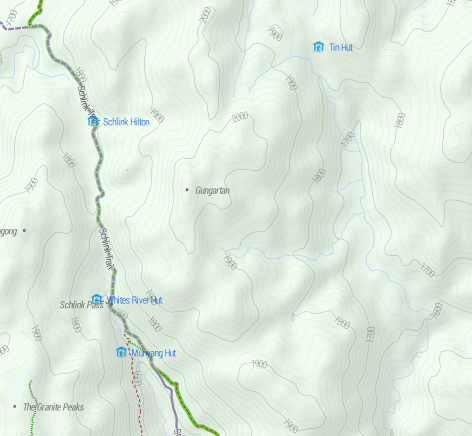 Topographic map of Gungartan and surrounding area. Data is OpenStreetMap, cartography by Steve Bennett.